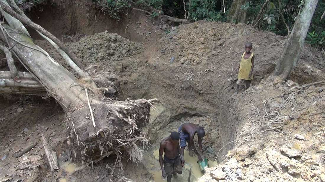 Marcellin, 7, helps his father and another man dig at an artisanal mining site near Bomandoro, Central African Republic. Diggers must go down as much as 15 feet into the heavy clay layers of the forest looking for rough diamonds. Sept. 19, 2014 (VOA/Bagassi Koura)